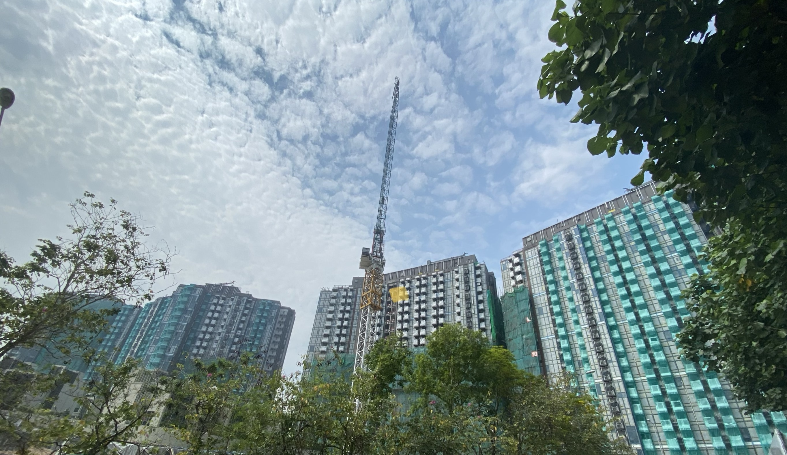 Emerald Bay at Tuen Mun 27/4/2020